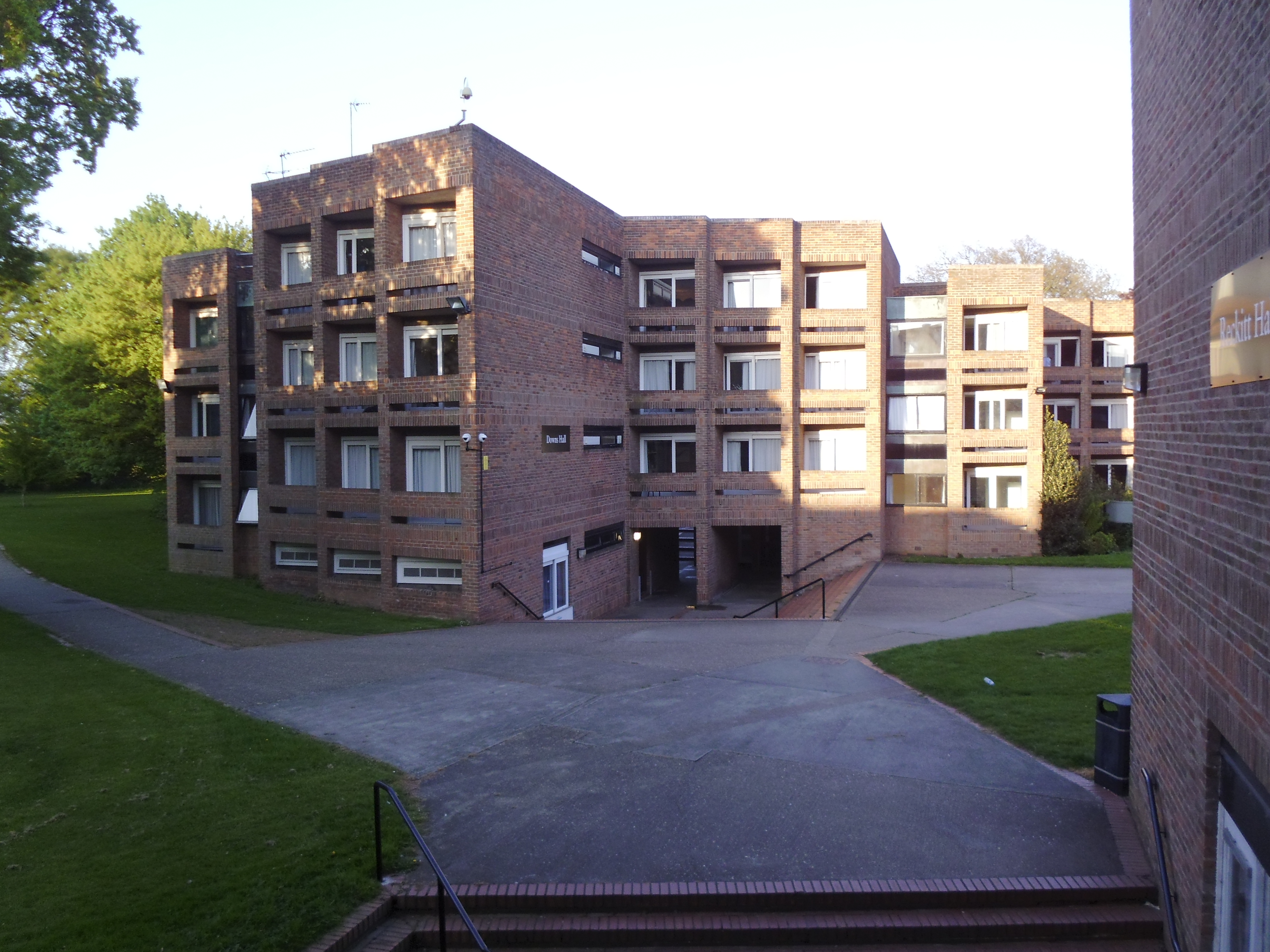 The eastern face of Downs Hall, photographed from the balcony of a first floor kitchen in opposite Reckitt Hall.